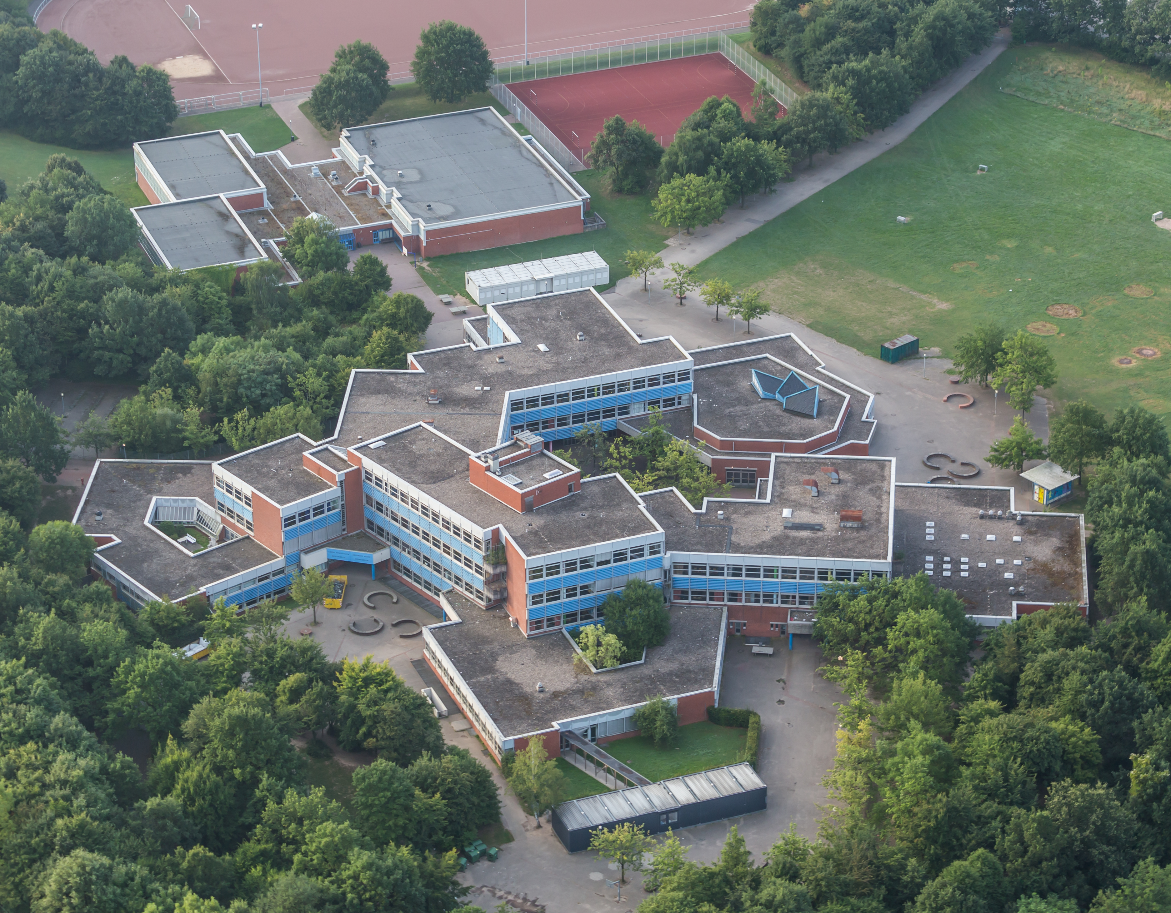 Hot air balloon trip across Cologne